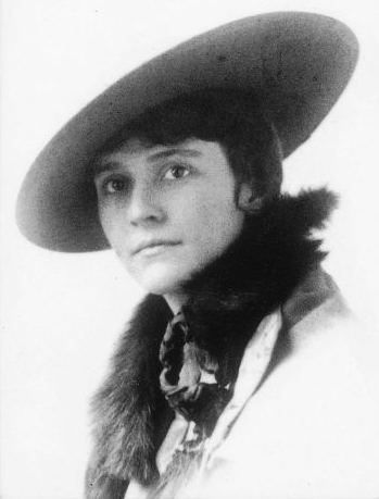 Photo of socialite Ginevra King circa 1916